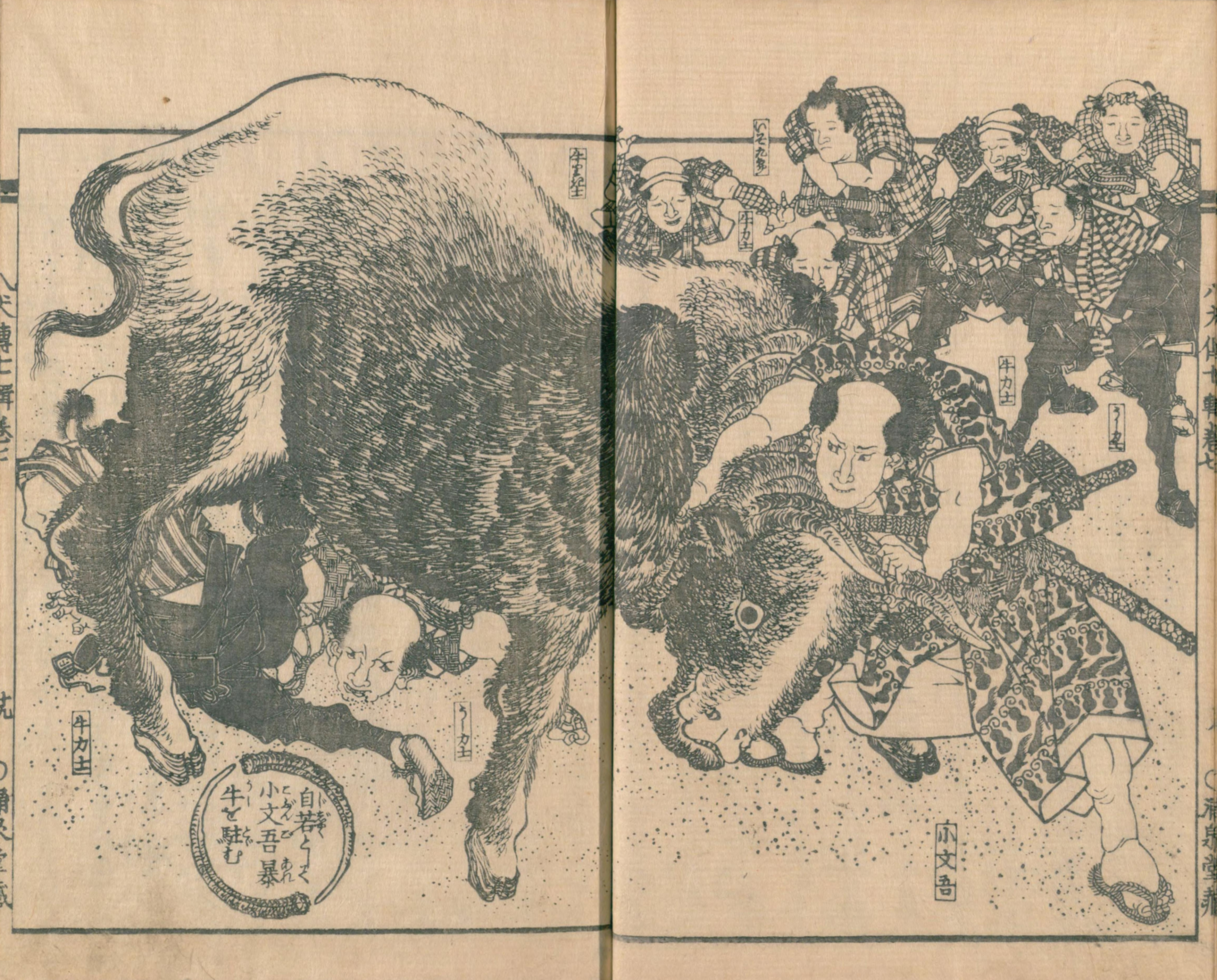 Illustration of "Kobungo (小文吾) is stopping a rampaging cattle" in Japanese book "Nansō Satomi Hakkenden".